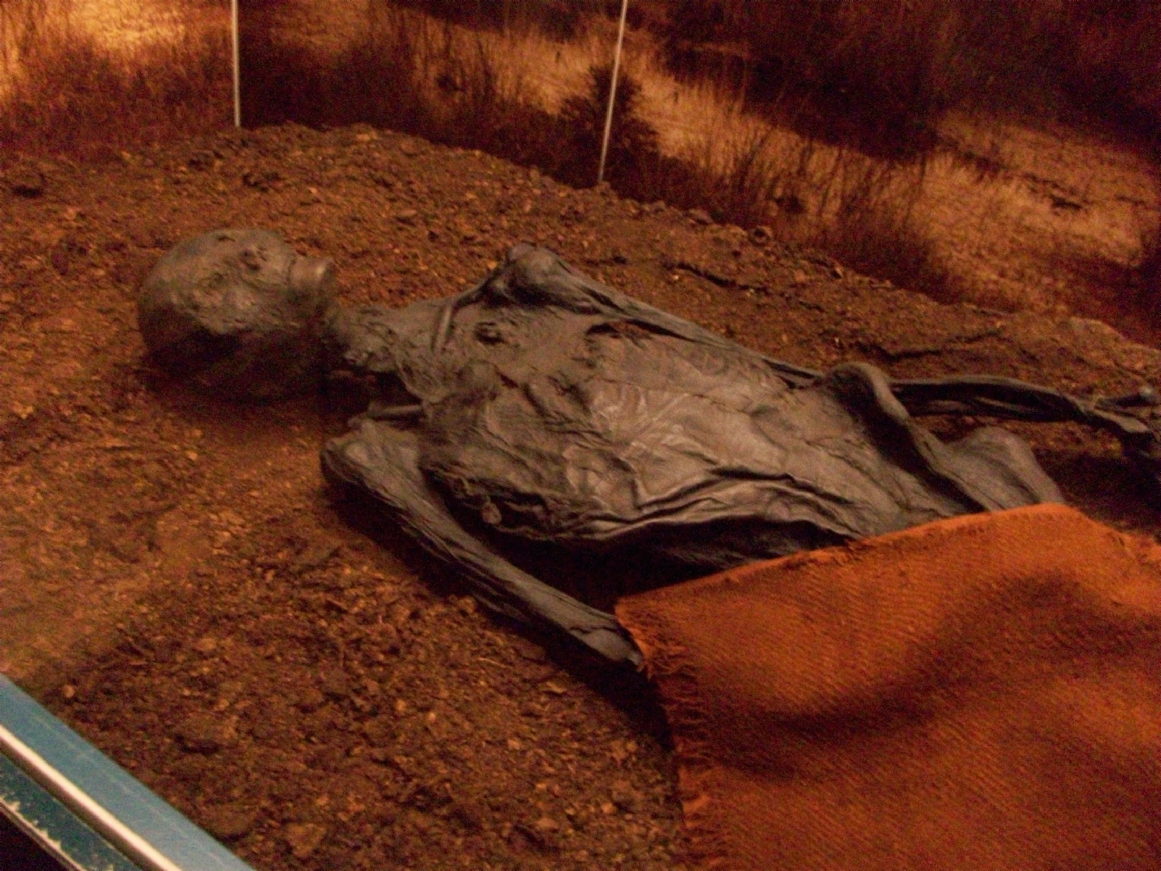 bog body of the Man of Rendswühren shown at Gottorf Castle, Schleswig (Germany)